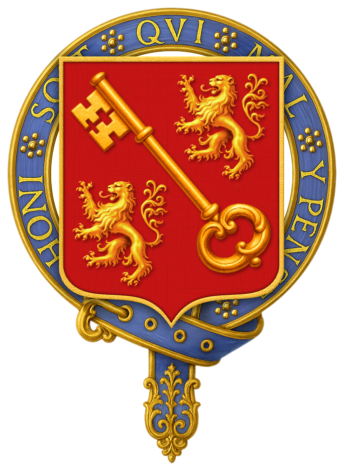 Garter-encircled shield of arms of Sir Joseph Austen Chamberlain, KG, as displayed on his Order of the Garter stall plate in St. George's Chapel, viz. Gules, a key in bend between two lions rampant or.